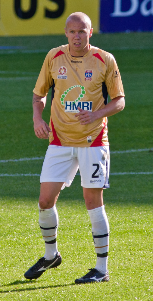 Taylor Regan playing for the Newcastle Jets in the 2010/11 A-League.